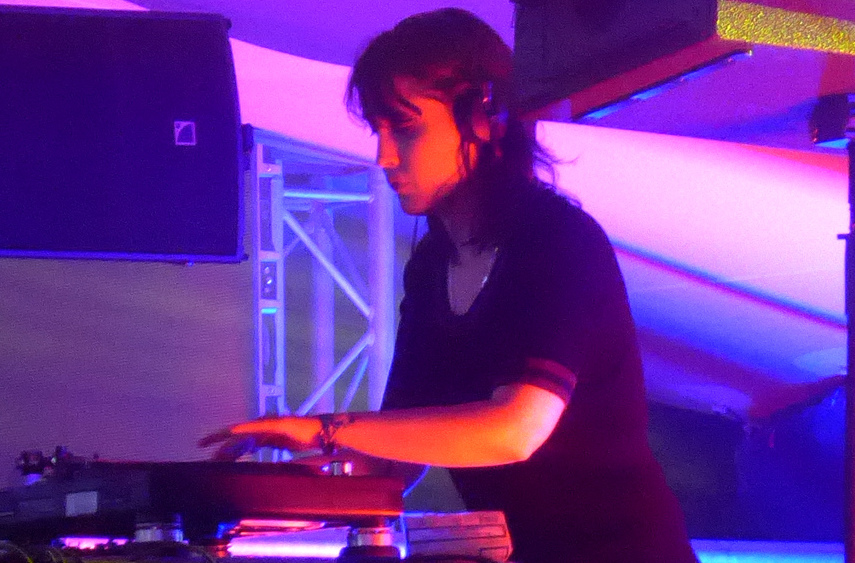 Helena Hauff @ Primavera Sound Festival, Barcelona, 02.06.2016